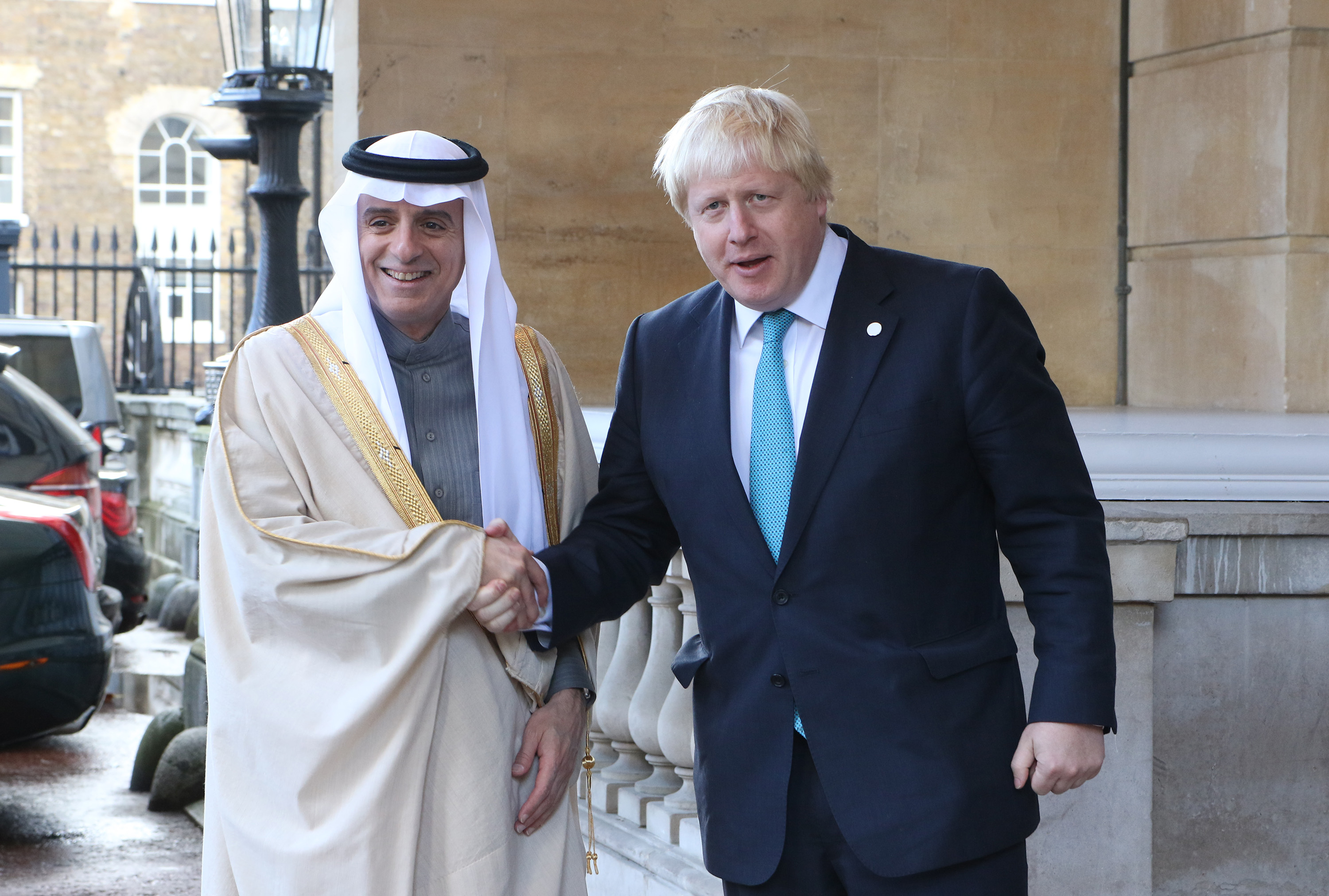 Foreign Secretary Boris Johnson and Saudi Minister of Foreign Affairs Adel bin Ahmed Al-Jubeir at the international Syria meeting in London, 16 October 2016.